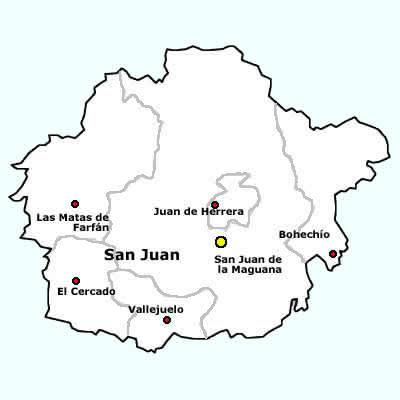 Municipalities of San Juan Province (Dominican Republic).